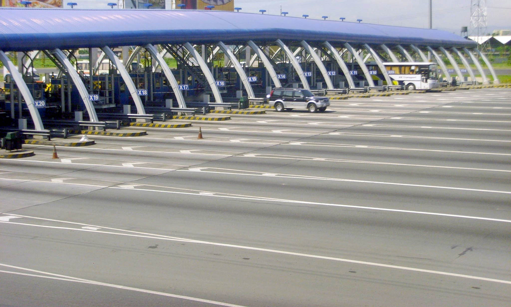 Aerial View of Bocaue Toll Barrier, NLEx